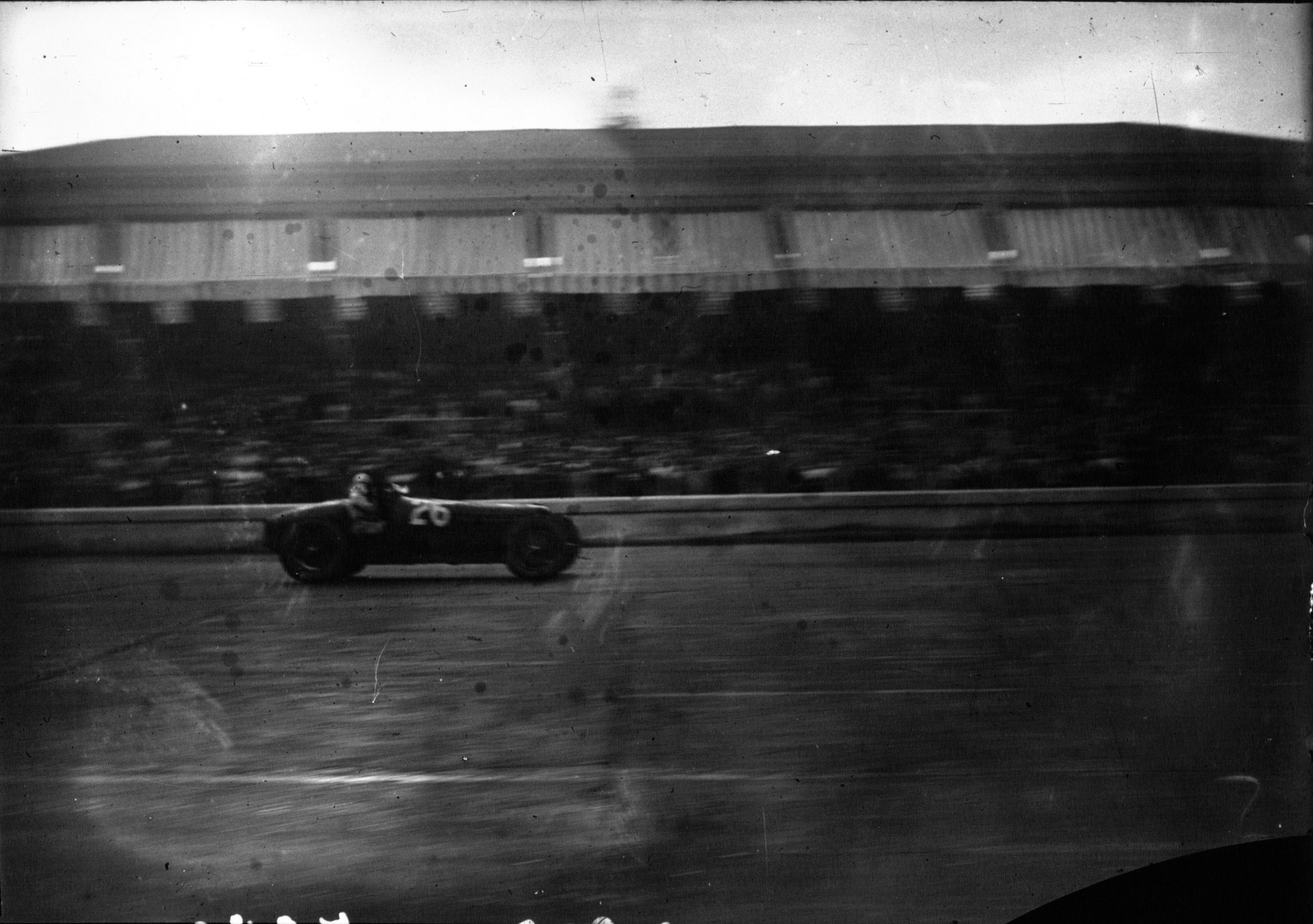 Achille Varzi at the 1930 Monza Grand Prix.